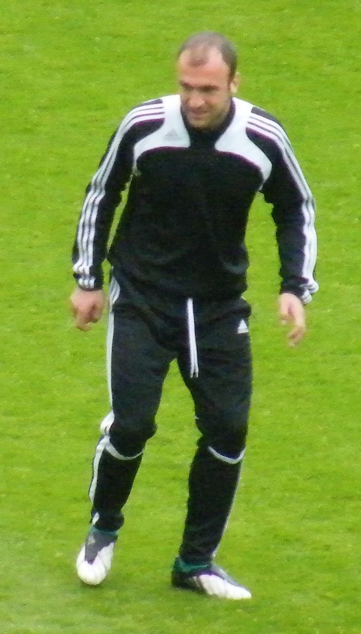 Rati Aleksidze is an association football striker from Georgia.